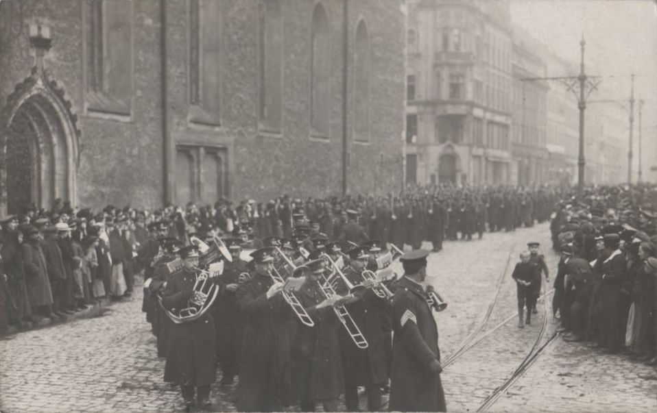 Funeral of colonel Chatzopoulos, commander of IV Greek Army Corps interned in Görlitz, Germany, during World War I.